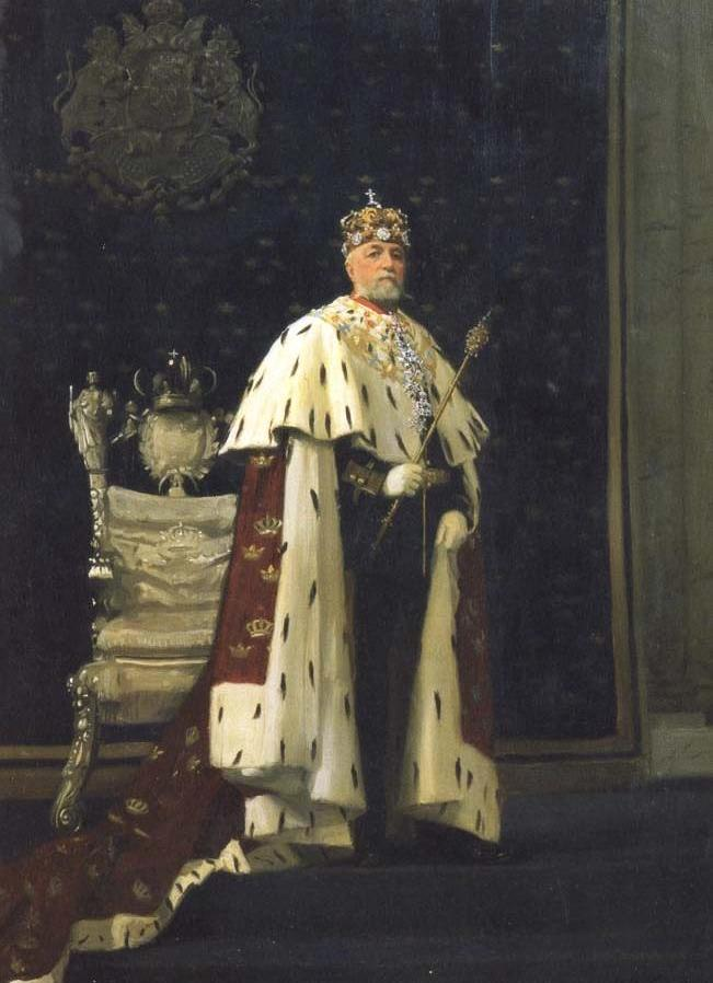 King Oscar II of Sweden and Norway at the Throne of Sweden[1]